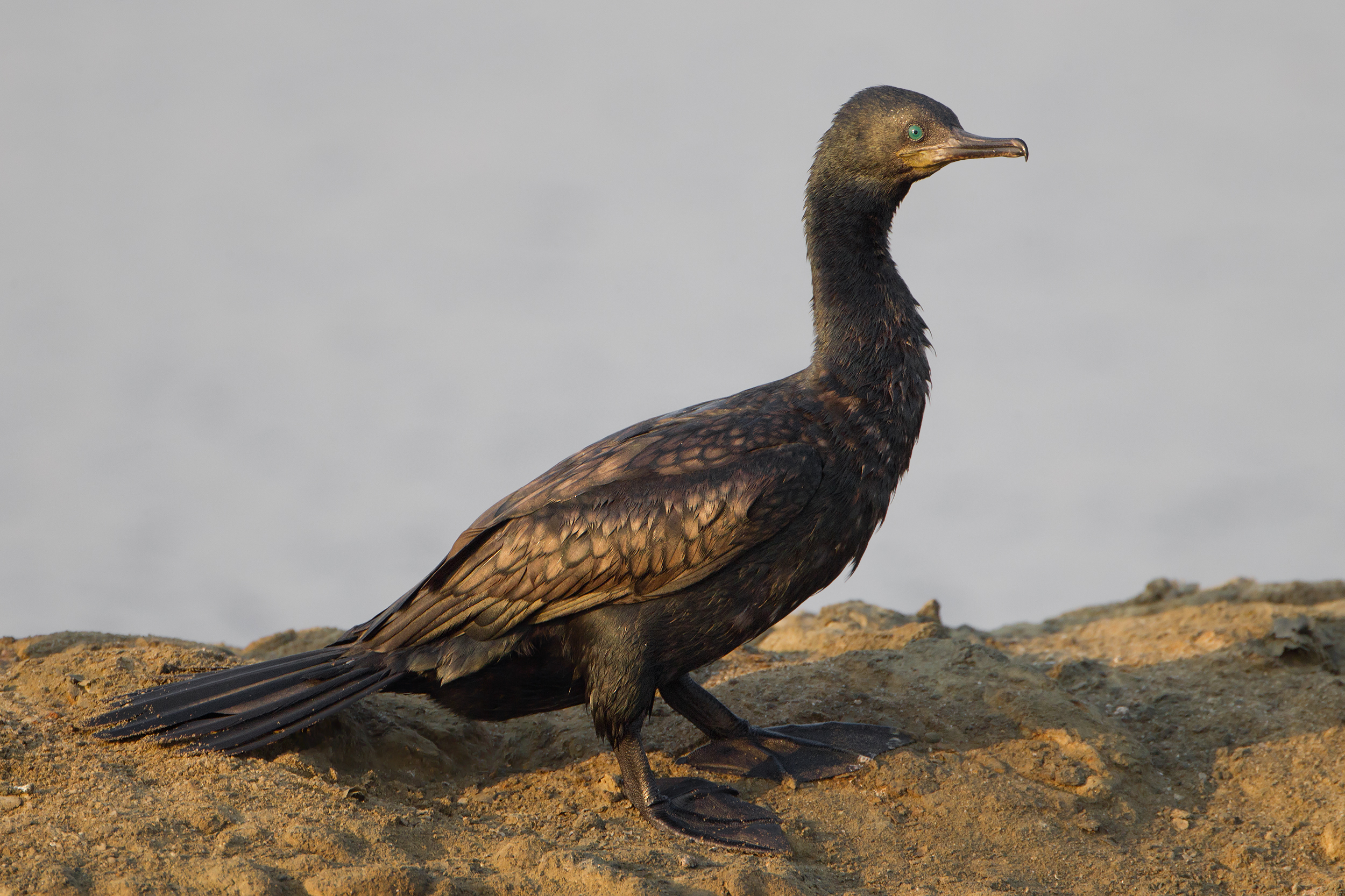 Indian Cormorant (Phalacrocorax fuscicollis), Laem Pak Bia, Petchaburi, Thailand